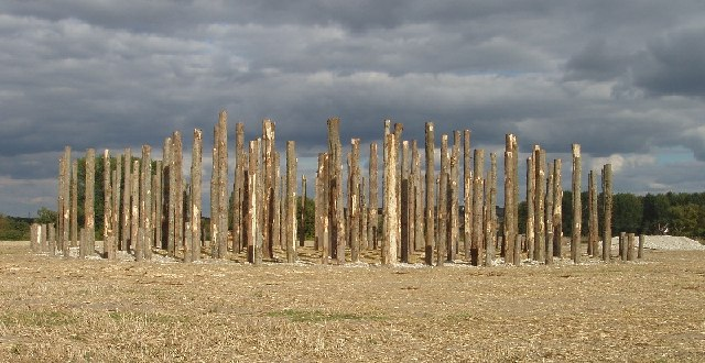 Woodhenge at North Newnton. Recreation of the Woodhenge monument. Built at North Newnton for the TV programme, Timeteam